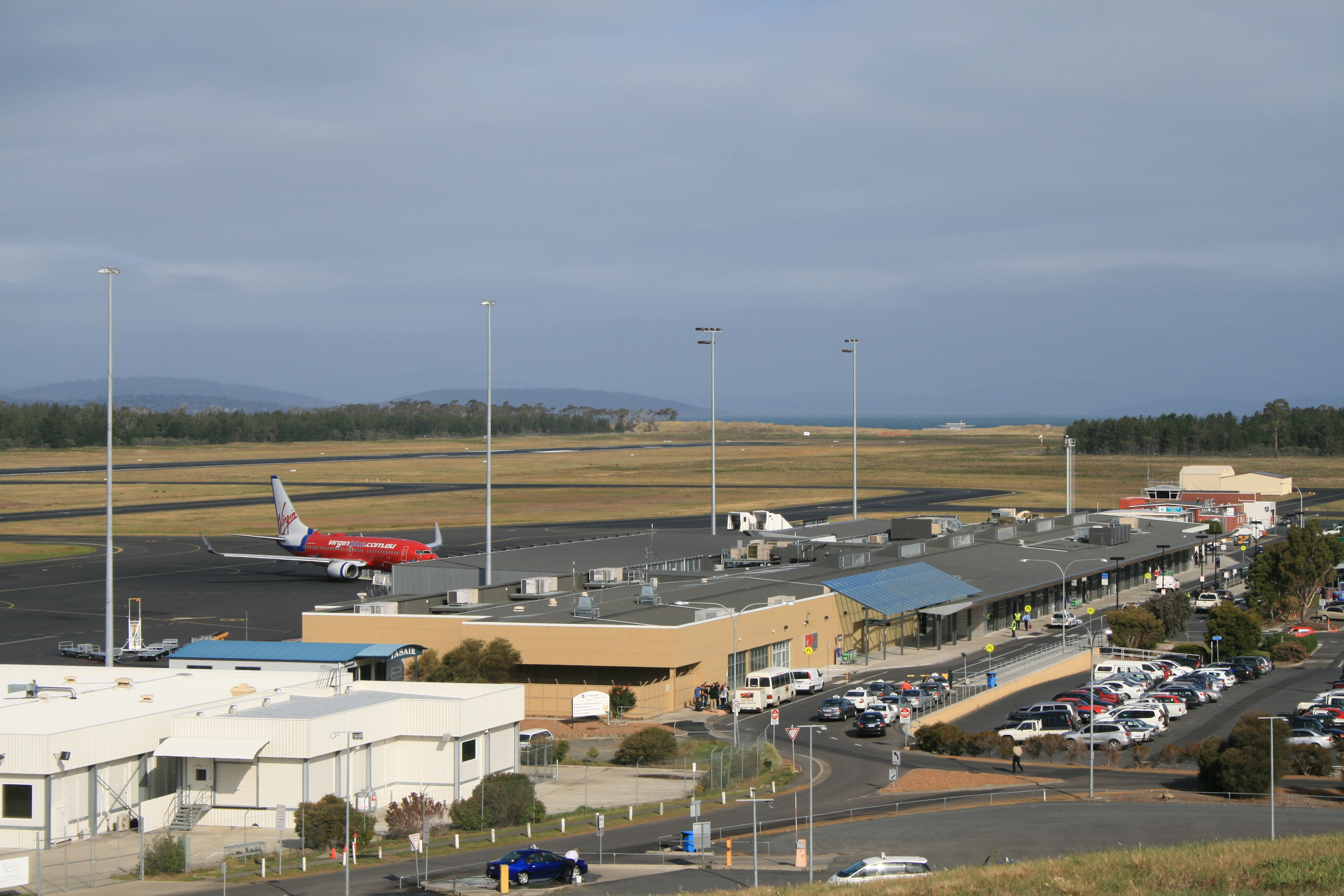 A view of the terminal and apron of Hobart Airport, taken from the hill where the Control Tower is located.